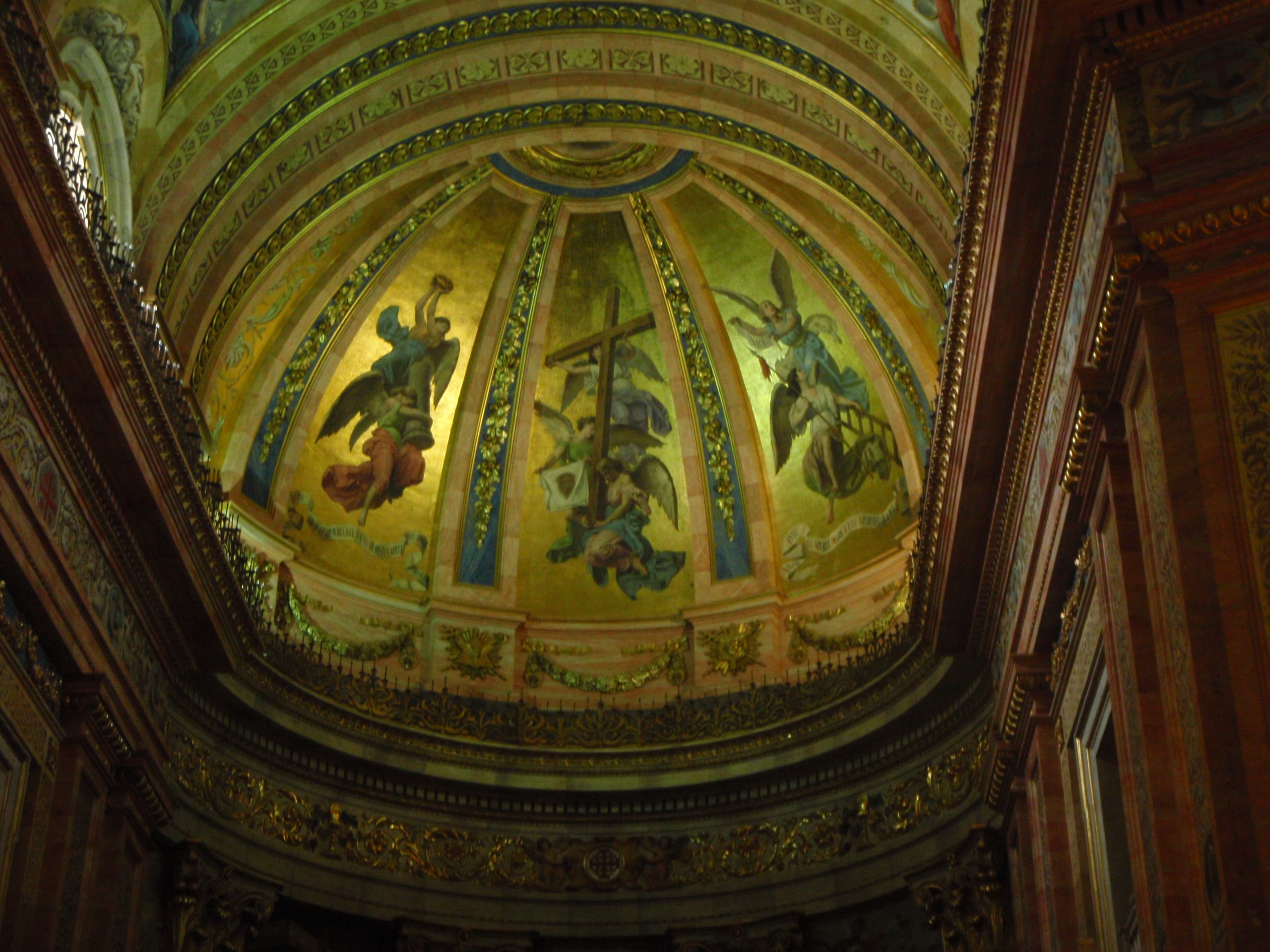 Interior of the Basílica de San Francisco el Grande (Basilica of St. Francis of Assisi) in Madrid (Spain).